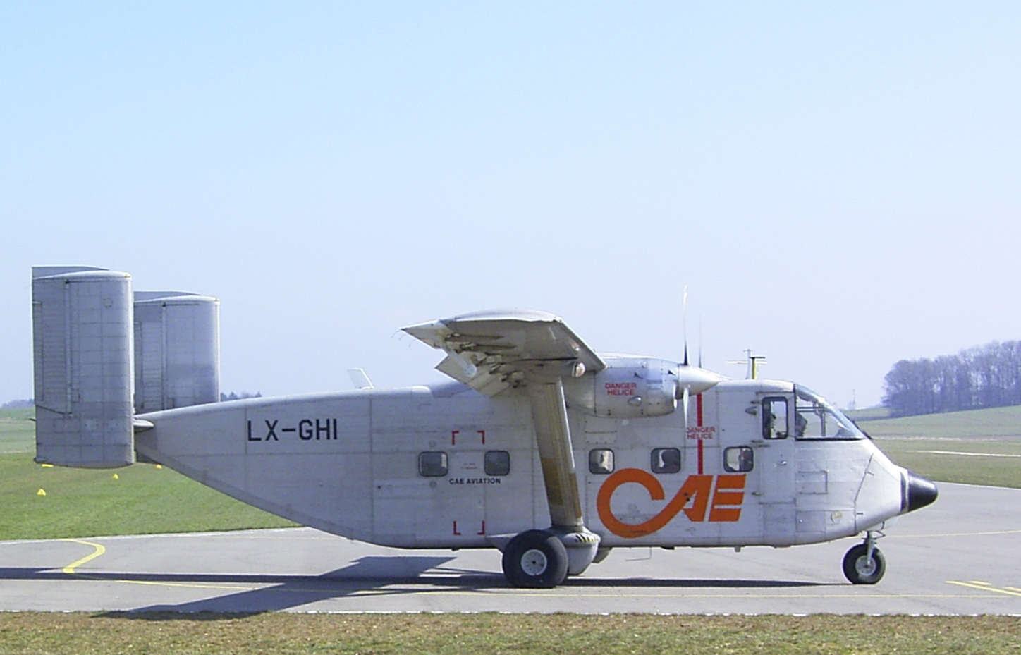 Short S.C.7 Skyvan LX-GHI in EDMB 20030413